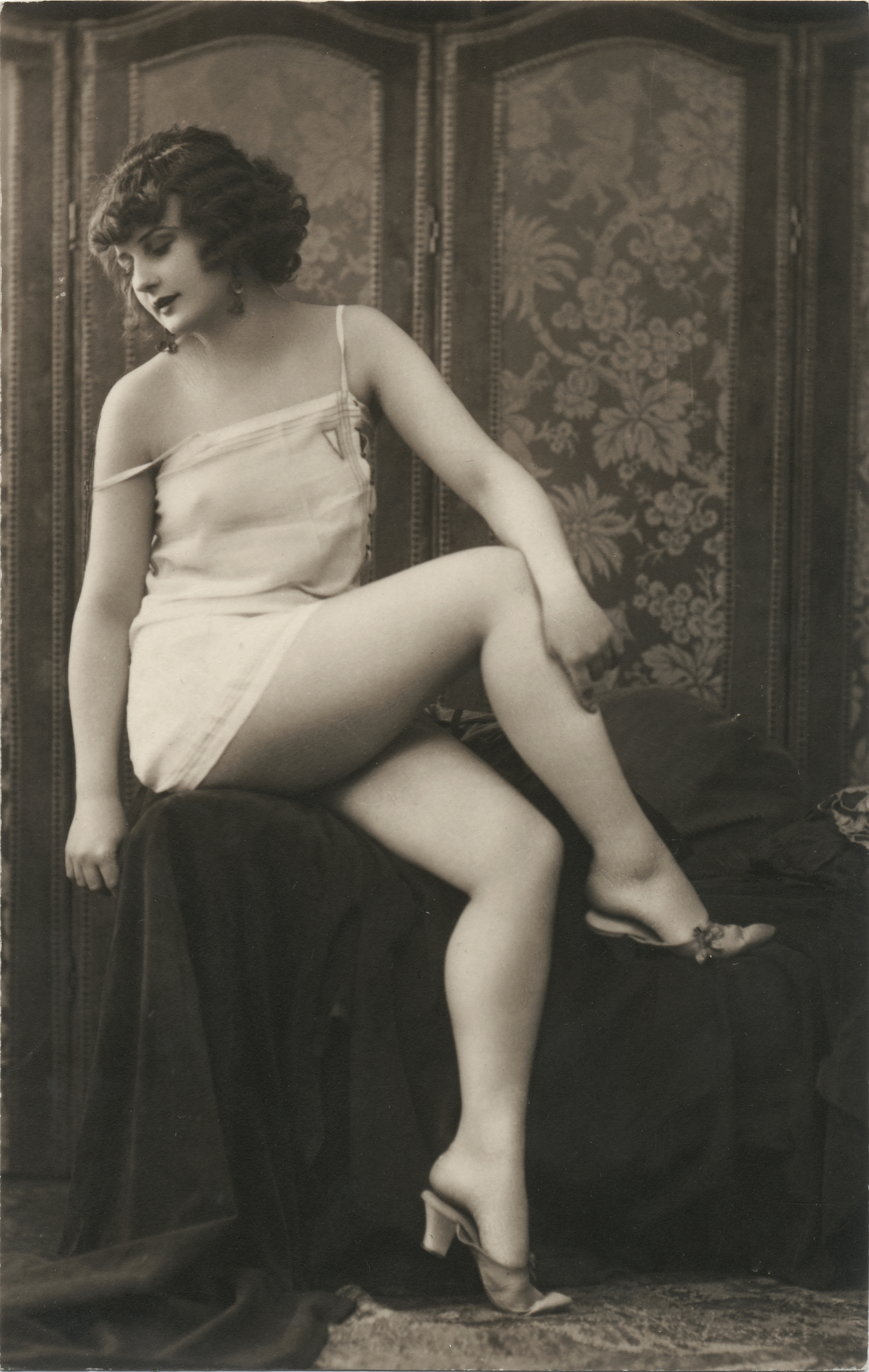 A girl in negligee